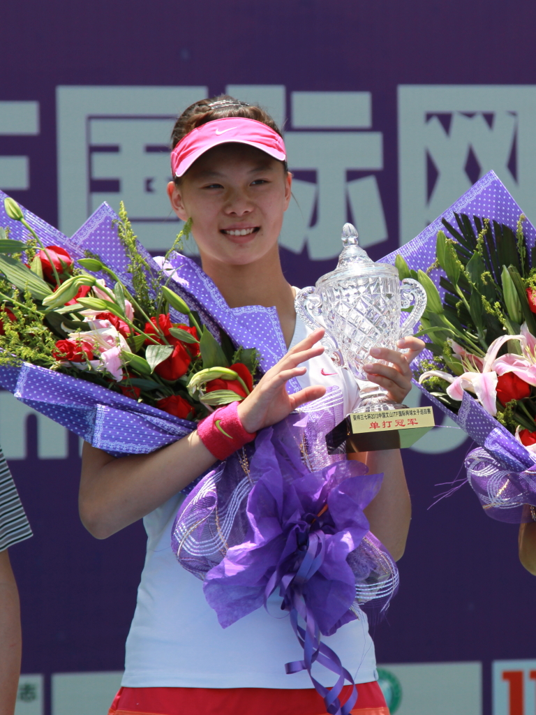 Chinese tennis player Zhang Yuxuan during the 2013 ITF women's circuit - Wenshan